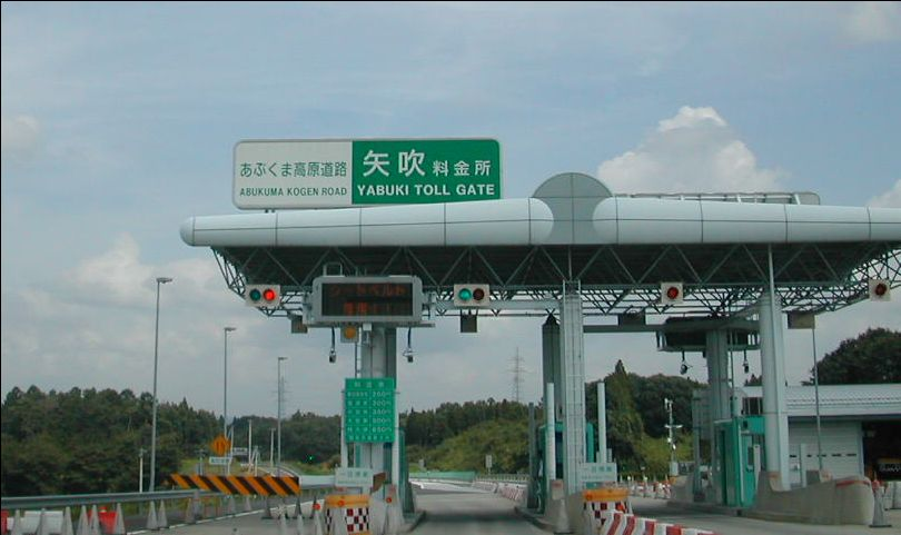 Yabuki Toll Gate on the Abukuma Kogen Road in Fukushima Prefecture, Japan